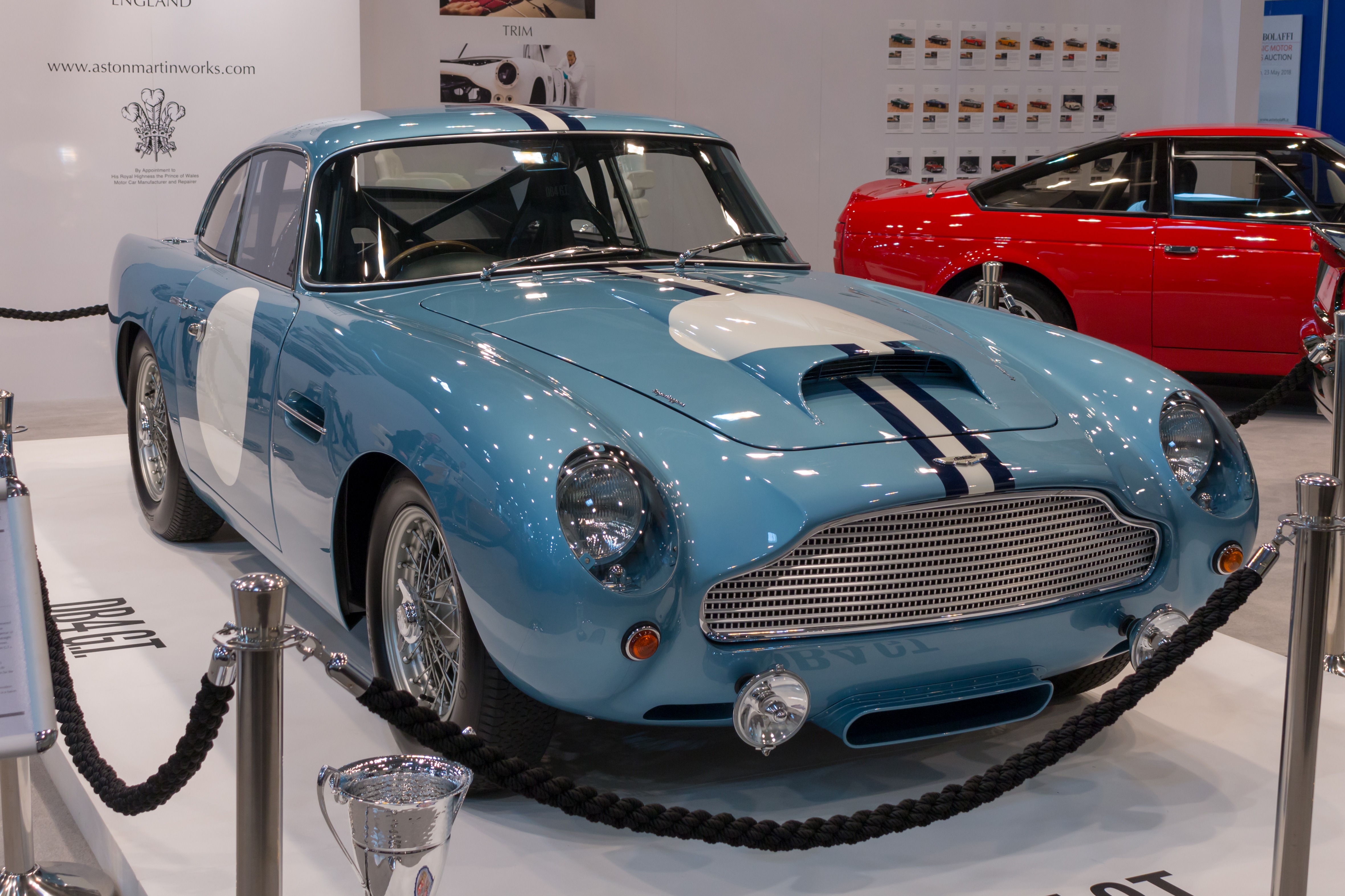 Techno-Classica 2018, Essen